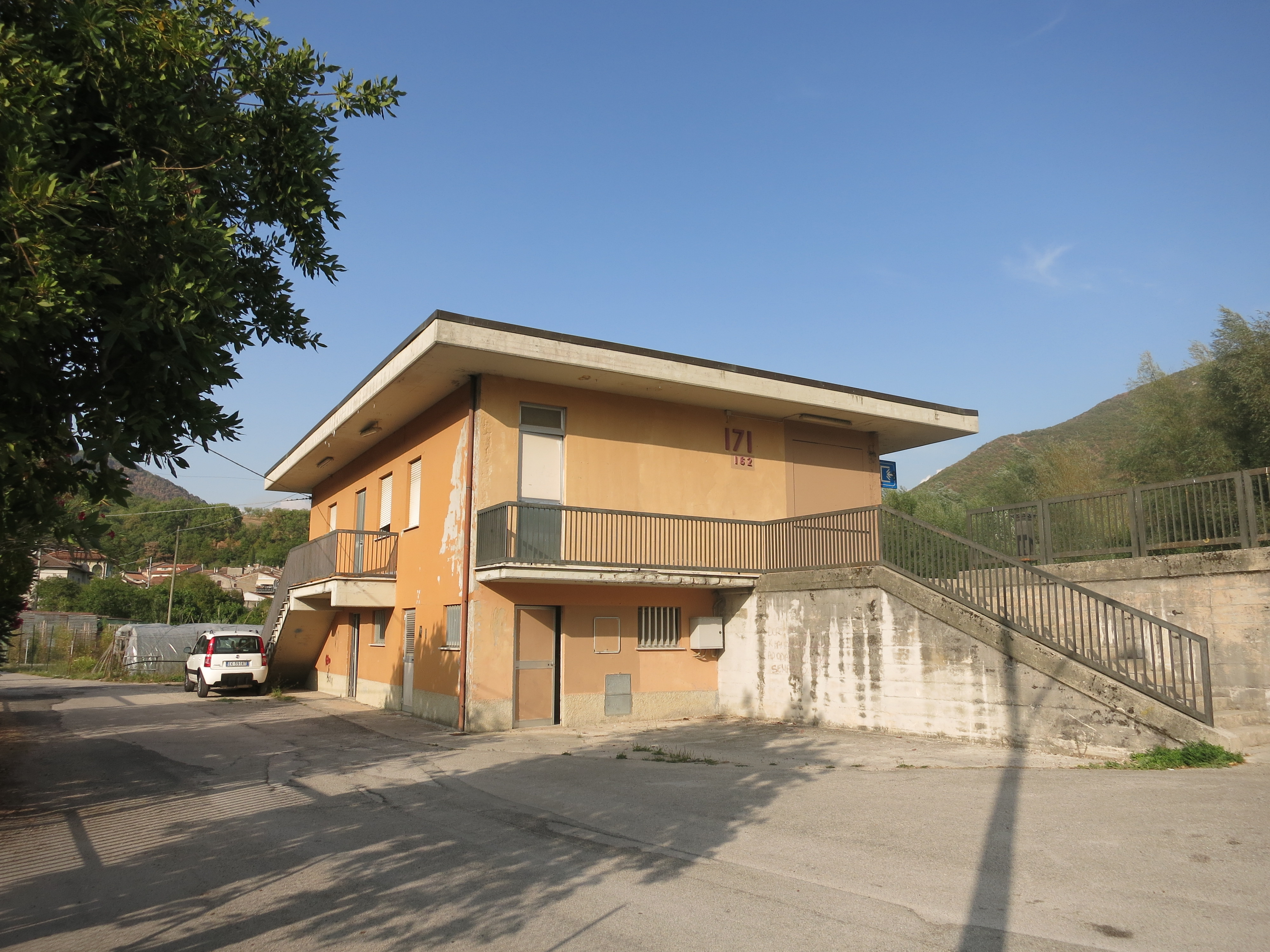 Canetra train station (province of Rieti, Lazio, Italy), on the Terni-Rieti-L'Aquila-Sulmona line.